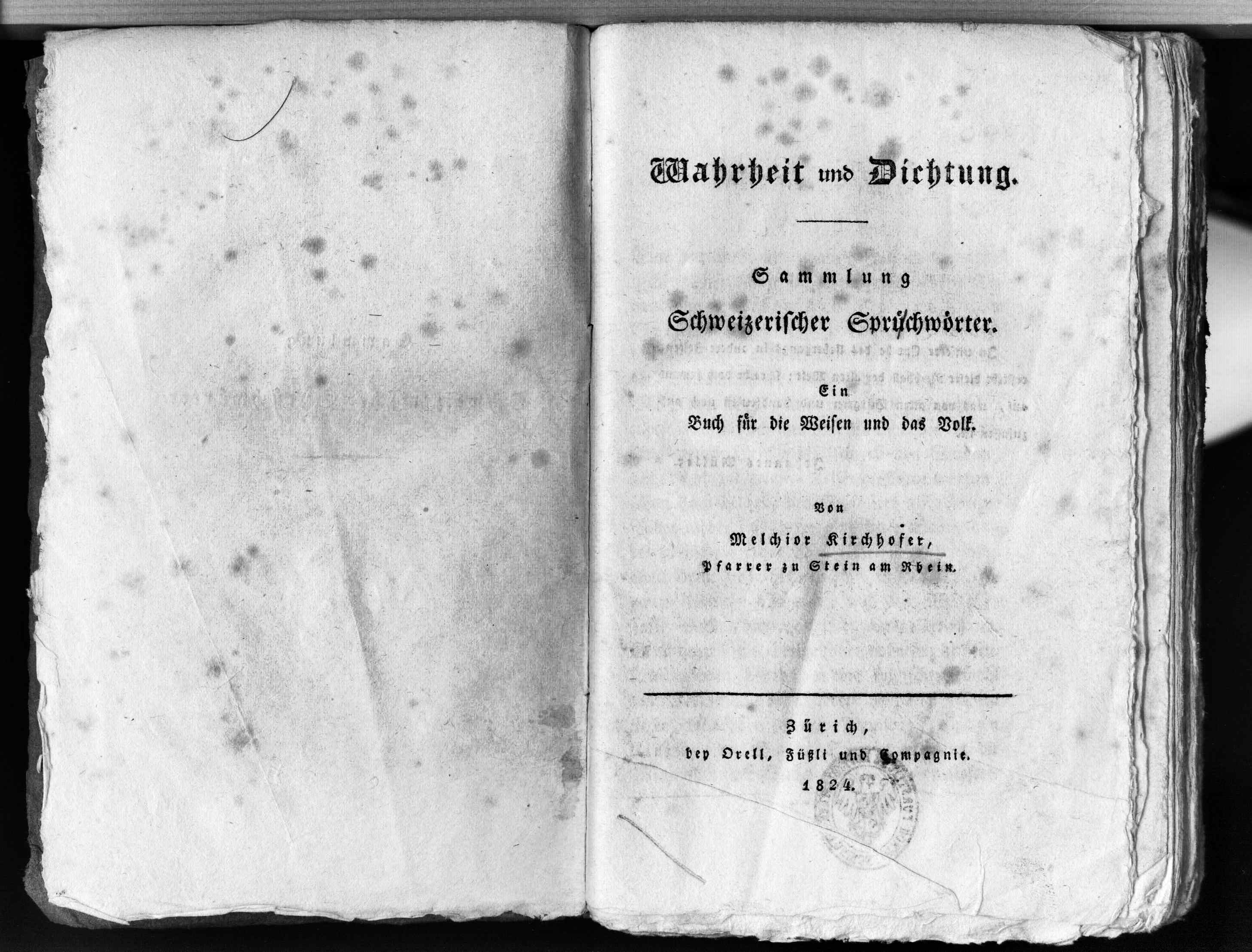 This is a scan of the historical document